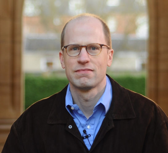 Nick Bostrom in Oxford